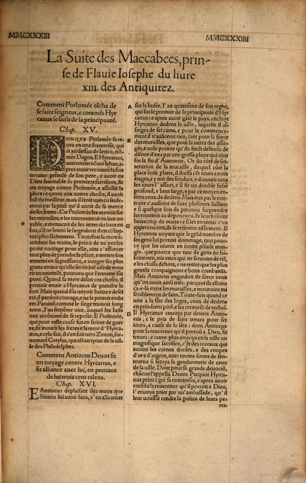 Bible de Castellion, 1555 (French) - Antiquités judaïques